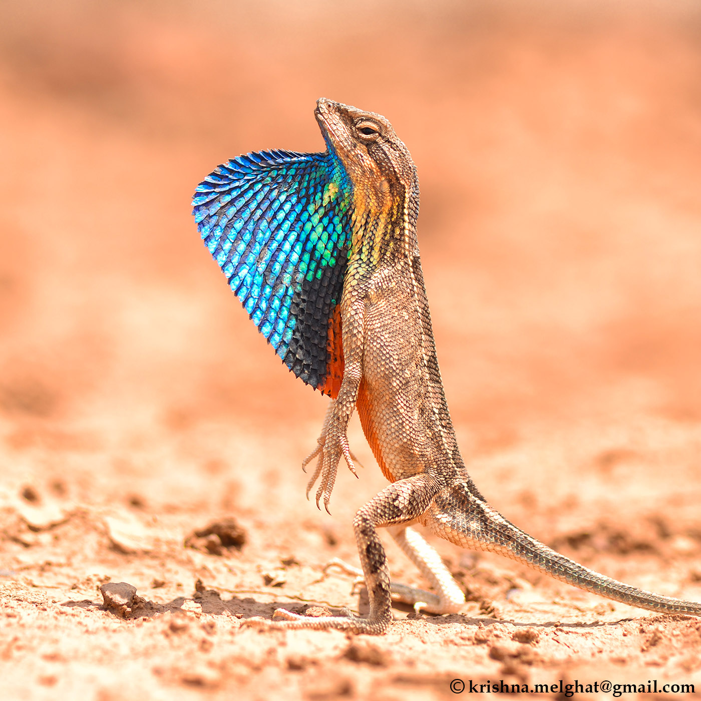 Superb large fan-throated lizard Sarada superba by Krishna Khan